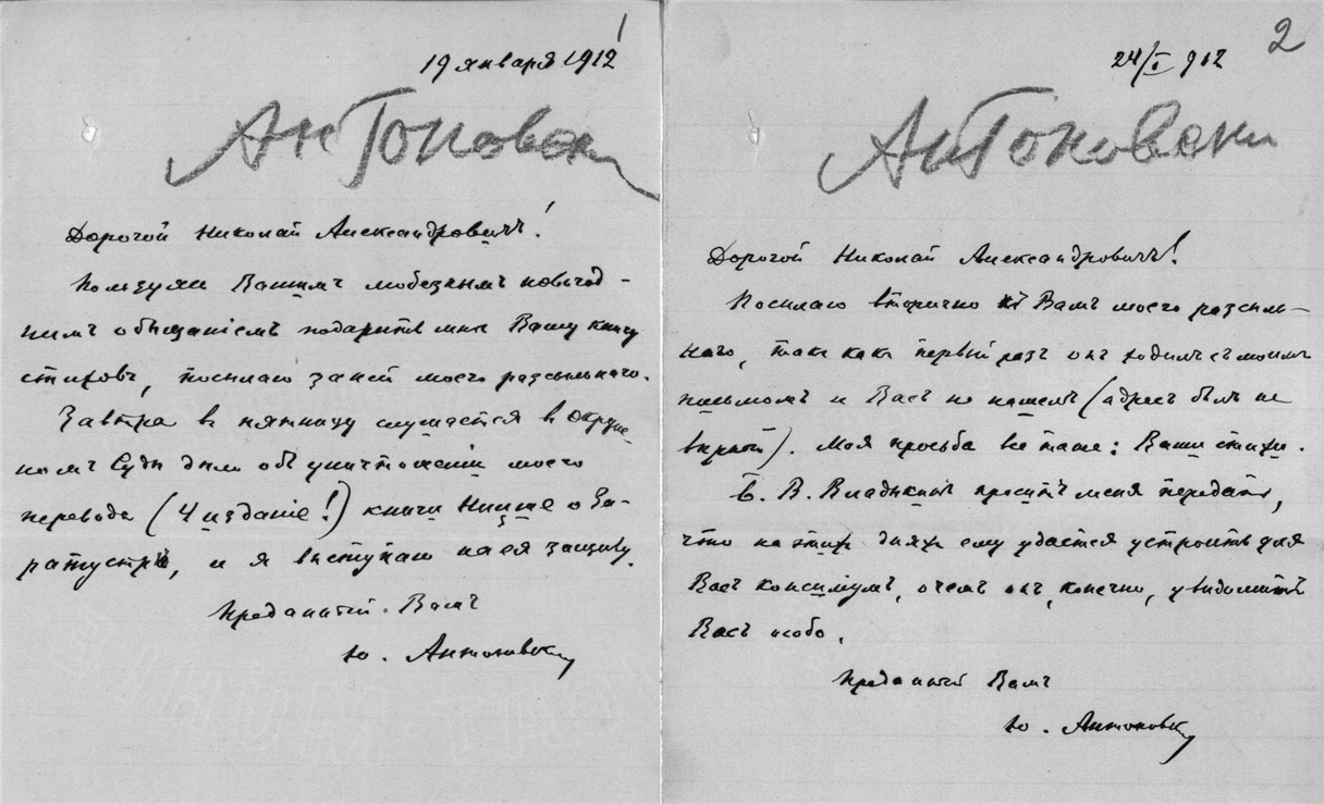 Two letters by M. Antonovsky to N. Morozov (19 and 24 January 1912): Plea about promised verses, message of the court for destruction of fourth editions of the book Friedrich Nietzsche, "Thus Spake Zarathustra" is translated Yu Antonovsky, and about medical consultation for N. Morozova by Dr. B. Vladykin.